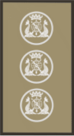 Municipal Guard Team Leader Insignia, Rio de Janeiro Municipal Guard